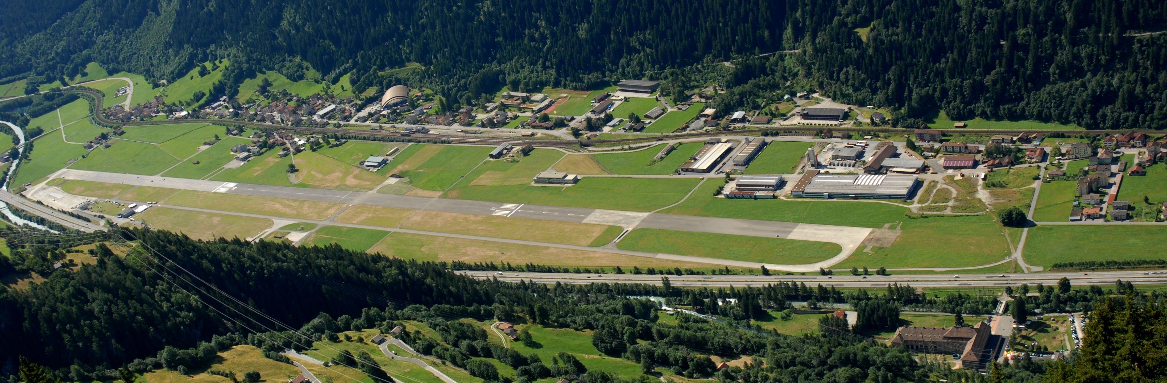 Ambri Airport seen from the valley size above. For more information, see the Wikipedia article Ambri Airport.